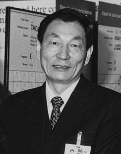 Zhu Rongji leading the Chinese delegation at the European Management Symposium, the predecessor of the World Economic Forum in Davos in 1986.